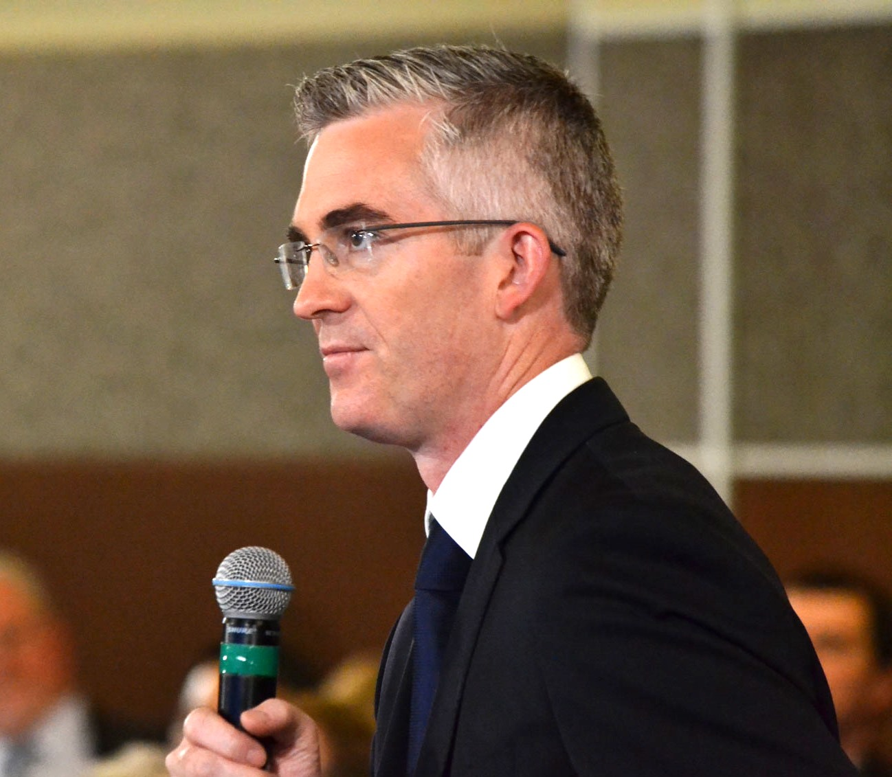 Political Editor for Sky News Australia asking Paul McClintock a question during a National Press Club of Australia address. Mr McClintock was speaking about the CEDA report titled "Deficit to balance: budget repair options"